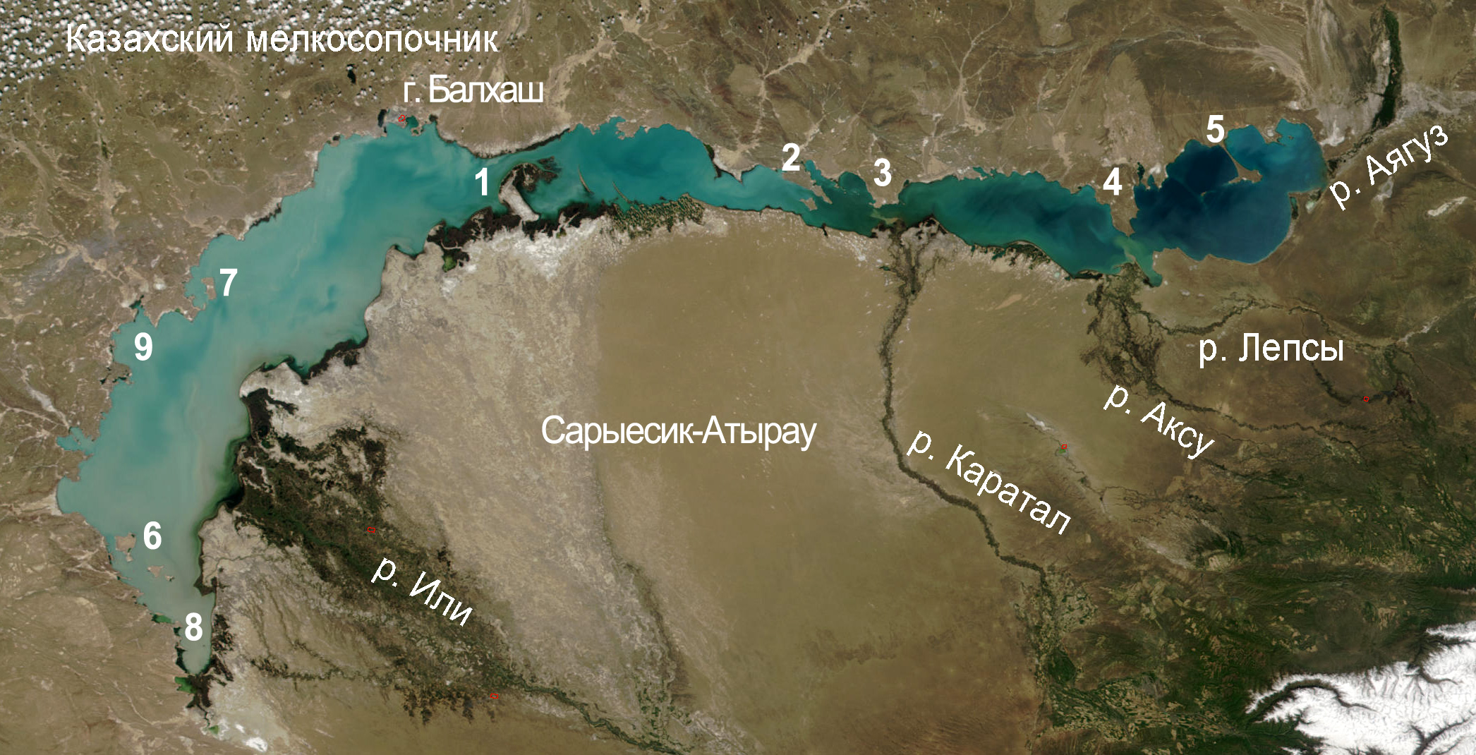 Lake Balkhash and the surrounding area viewed from space